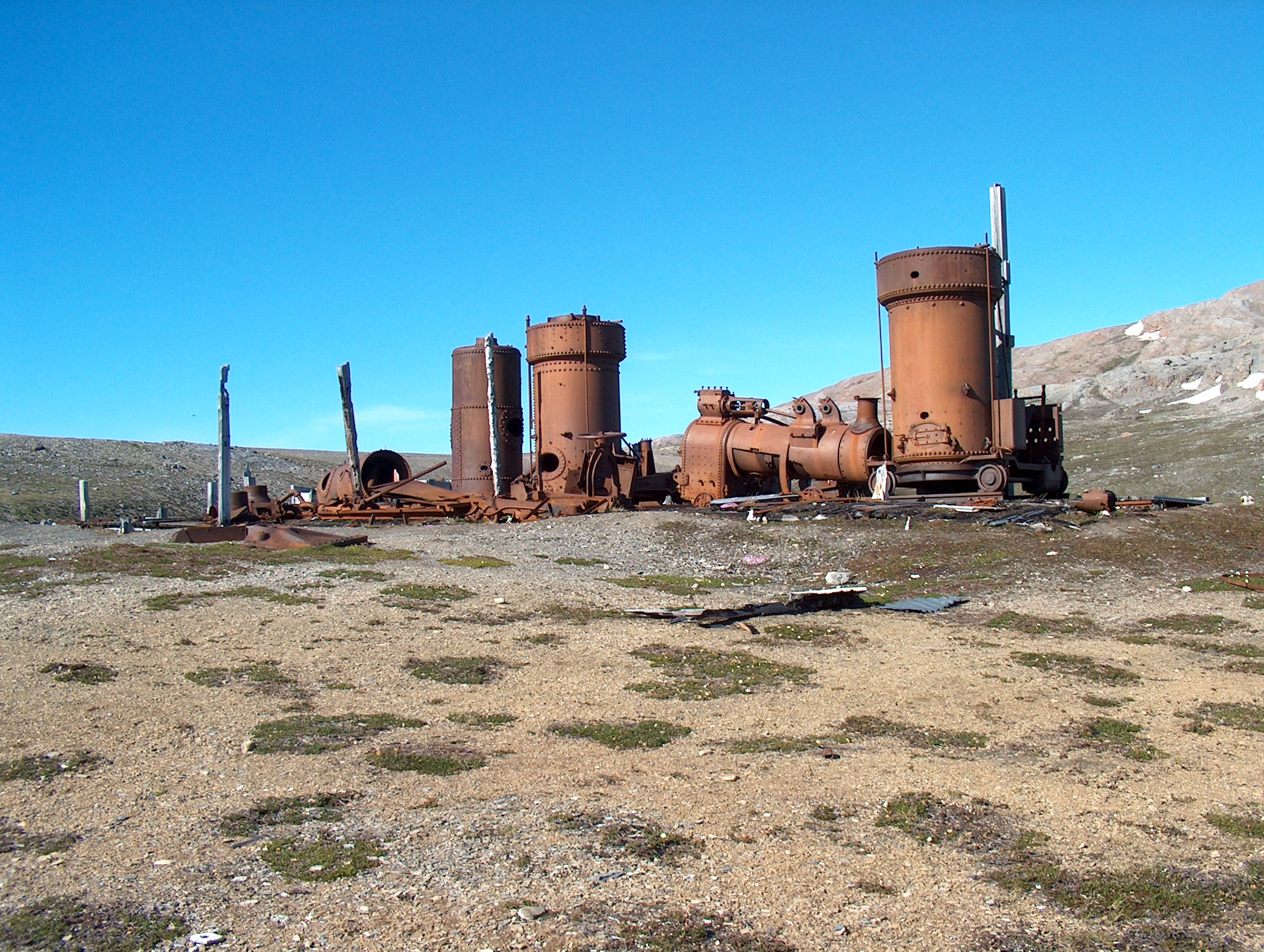 Remains of the marble mining settlement at Ny-London on Blomstrandhalvøya near Ny-Ålesund, Svalbard.